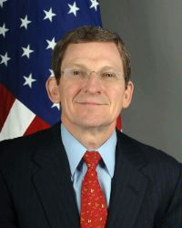 State Department portrait of Ambassador Marc Grossman, Special Representative for Afghanistan and Pakistan as of 2011.